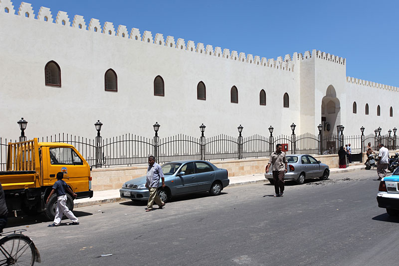 Façade, Amr ibn el-'As mosque, Dumyat, Egypt